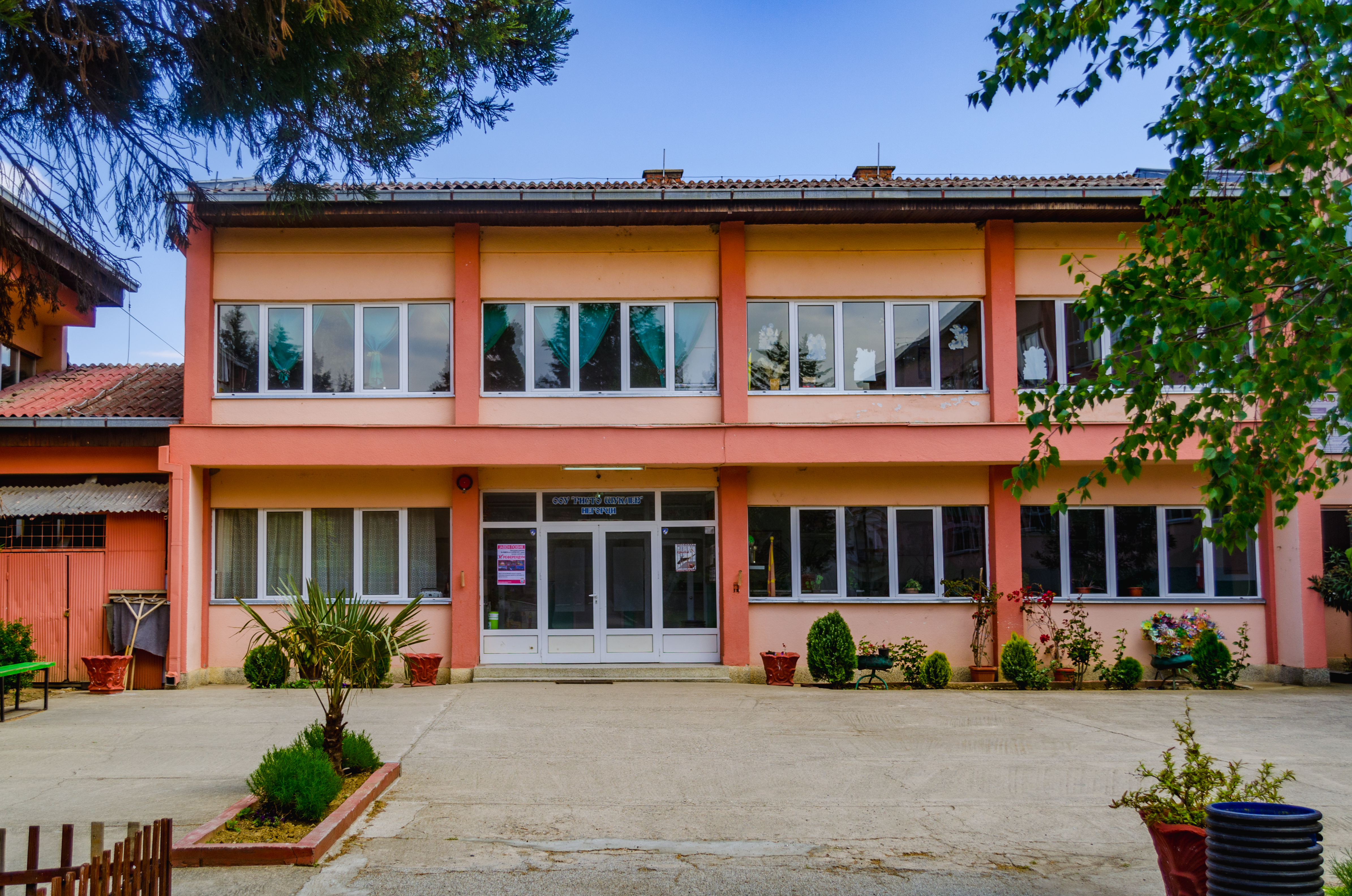 View of the primary school in the village Negorci